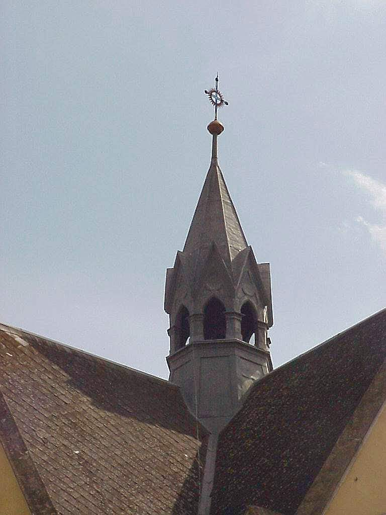 church tower in Předlice